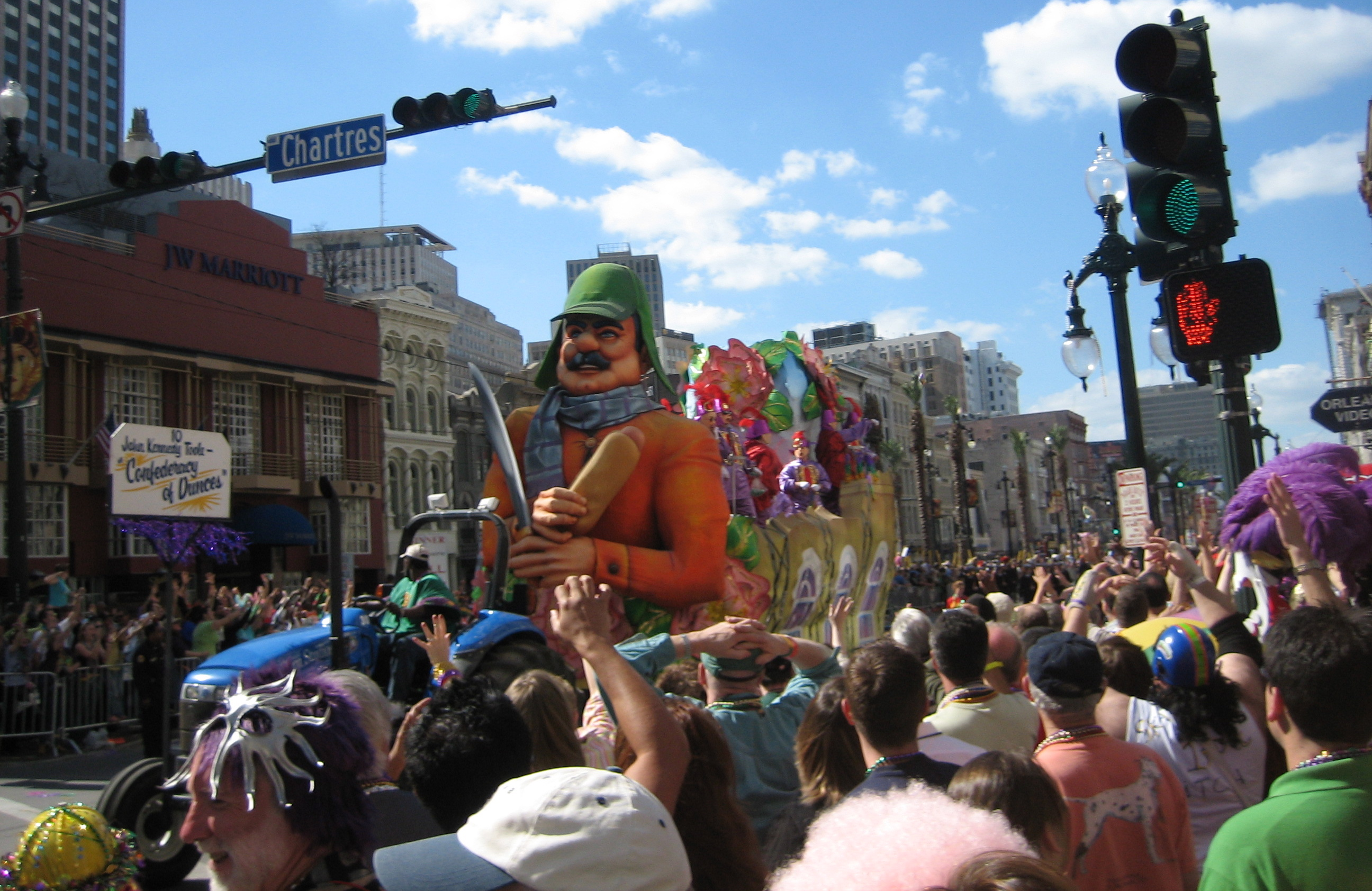 New Orleans, Mardi Gras Day, 2006: Rex Parade float commemorating novel "A Confederacy of Dunces" on Canal Street near the corner of Charters.